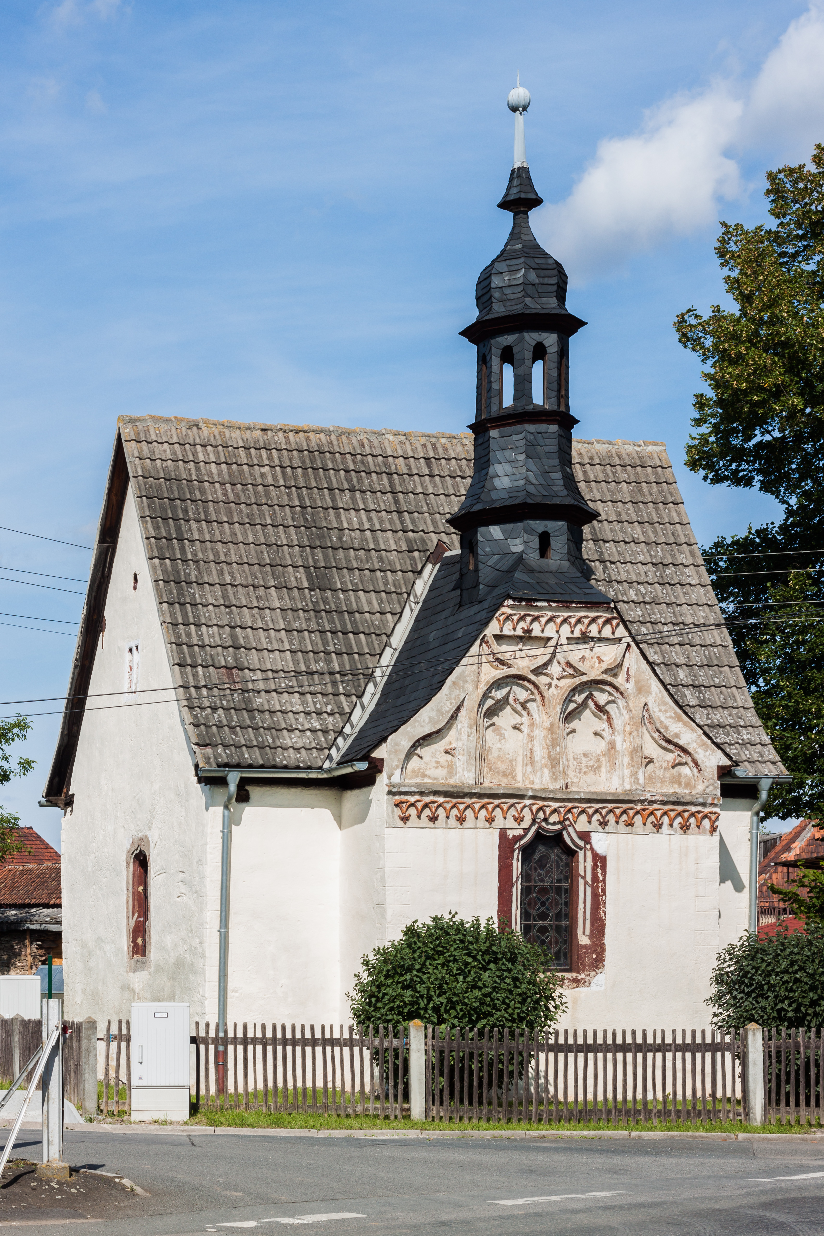 Saint Veit Chapel (Wernburg, Thuringia, Germany).